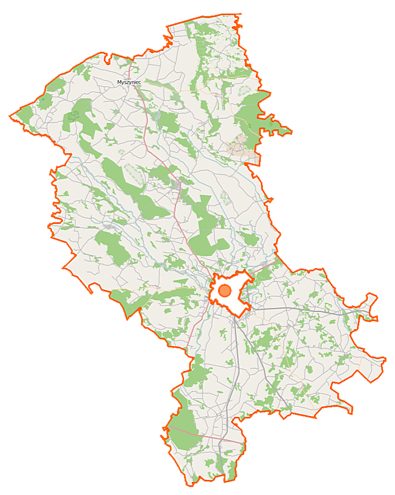 Map of Powiat ostrołęcki, Poland This map of Powiat ostrołęcki was created from OpenStreetMap project data, collected by the community. This map may be incomplete, and may contain errors. Don't rely solely on it for navigation. Border coordinates53.500321.0333←↕→21.980952.7853